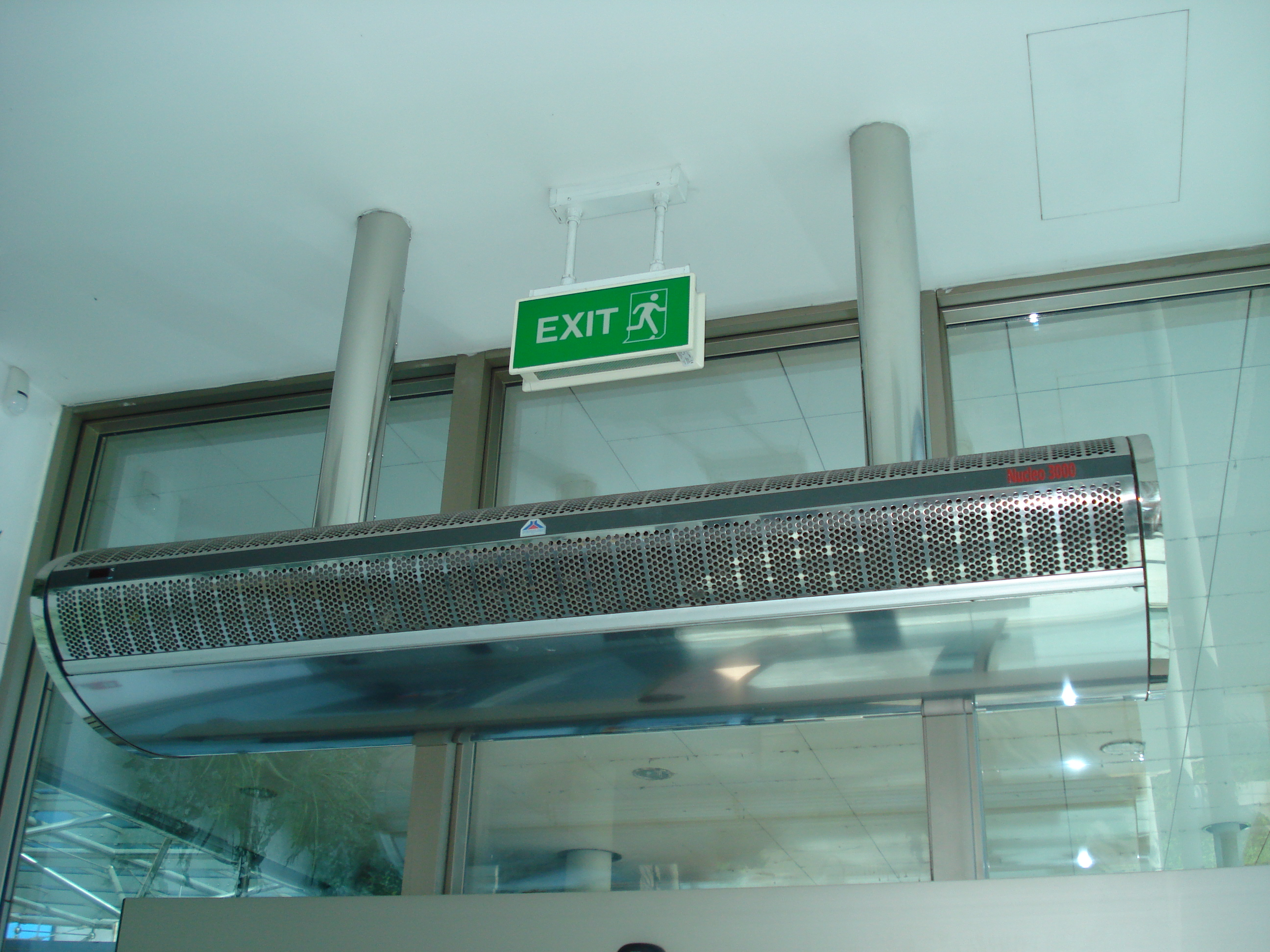 Дизайнерская завеса Stavoklima Nucleo 3000, корпус которой выполнен из полированной нержавеющей стали